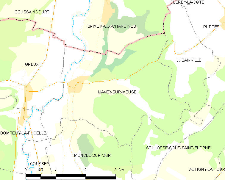 Map of French municipality Maxey-sur-Meuse